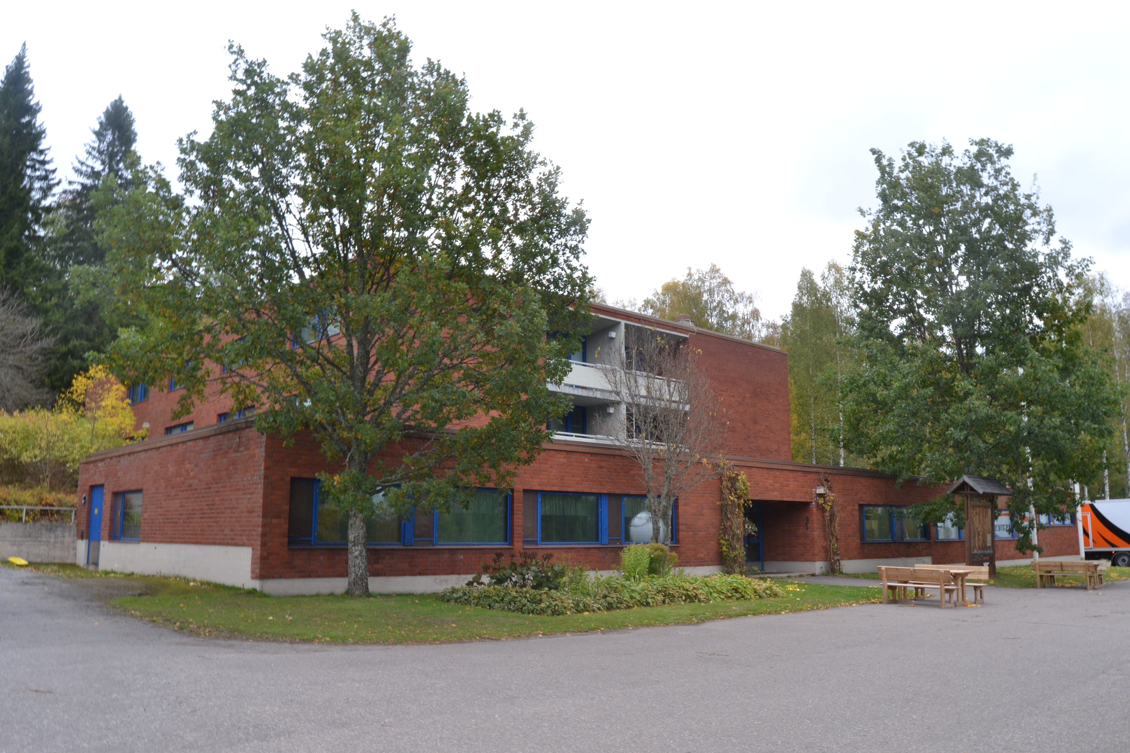 Building A of Hyytiälä forestry field station